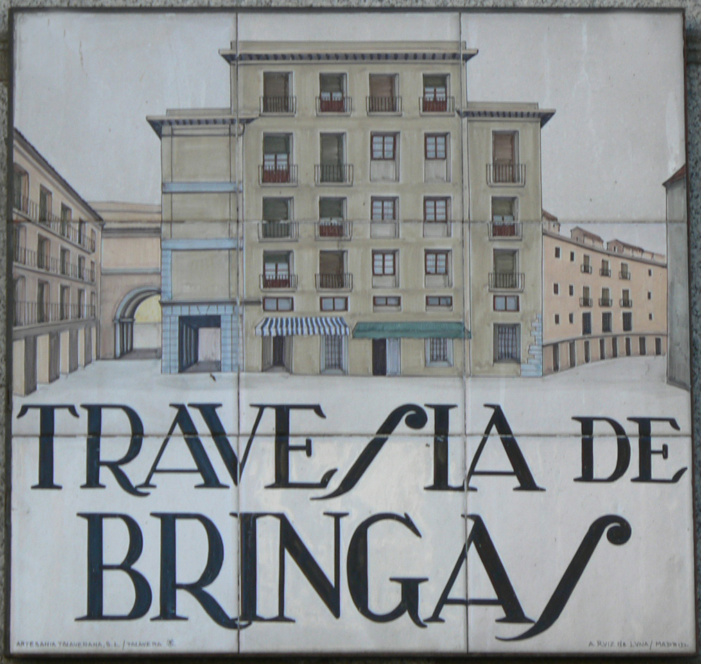 Sign of Travesía de Bringas (street, Centro district) in Madrid (Spain).